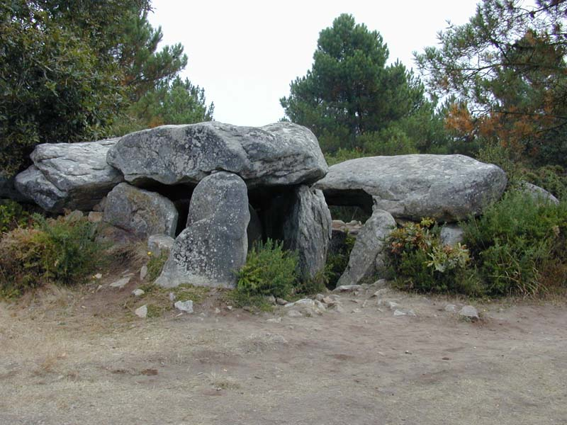 This image was copied from en. The original description was : Remains of megalithic tomb, Mane Braz, Brittany